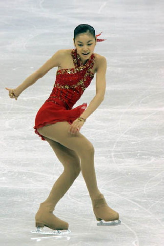 Kim Yu-Na at the 2009 World Figure Skating Championships.